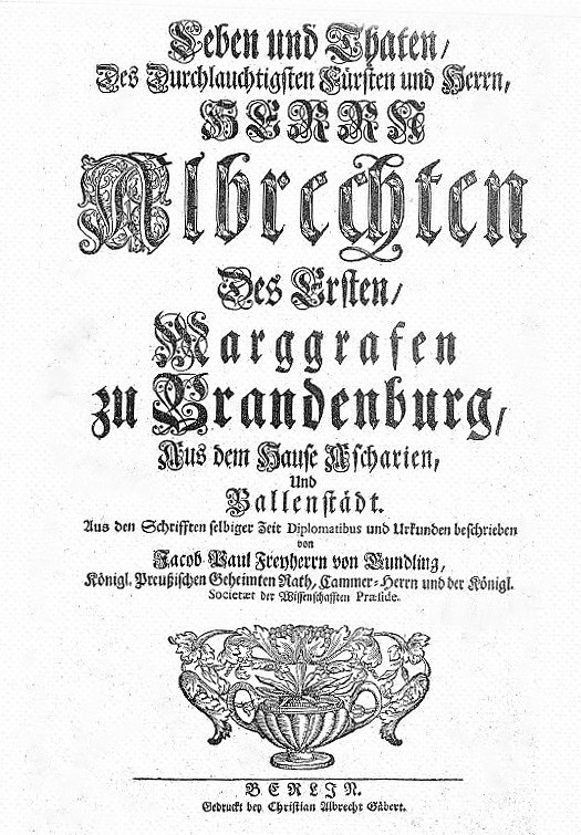 Jacob Paul von Gundling, Seite 1 seines Werkes: Leben und Thaten des durchlauchtigsten Fürsten und Herrn, Herrn Albrechten des Ersten, Markgrafen zur Brandenburg aus dem Hause Ascharien und Ballenstädt. Printed by Christian Albrecht Gäbert, Berlin 1730.